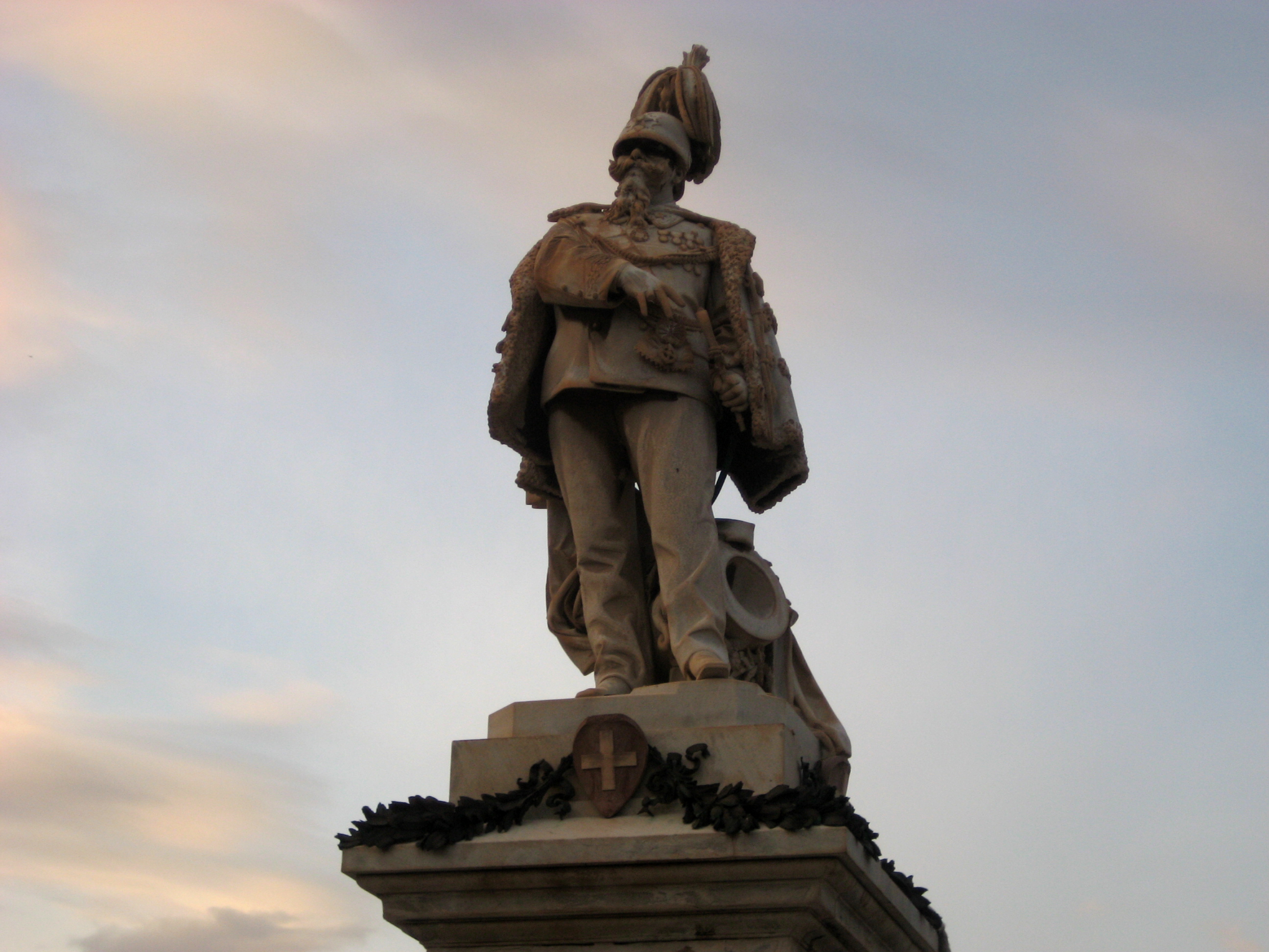 Vittorio Emanuele II statue in Trapani